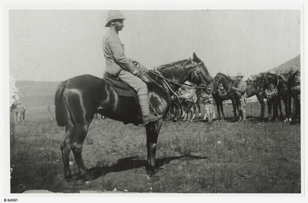 Captain Howland of the first South Australian Contingent in South Africa giving the 'Prepare to mount' order to troops leaving their camp at Rensburg, February 1900.